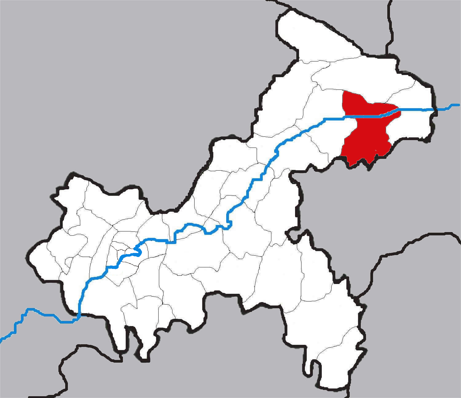 Administration maps of Chongqing, China